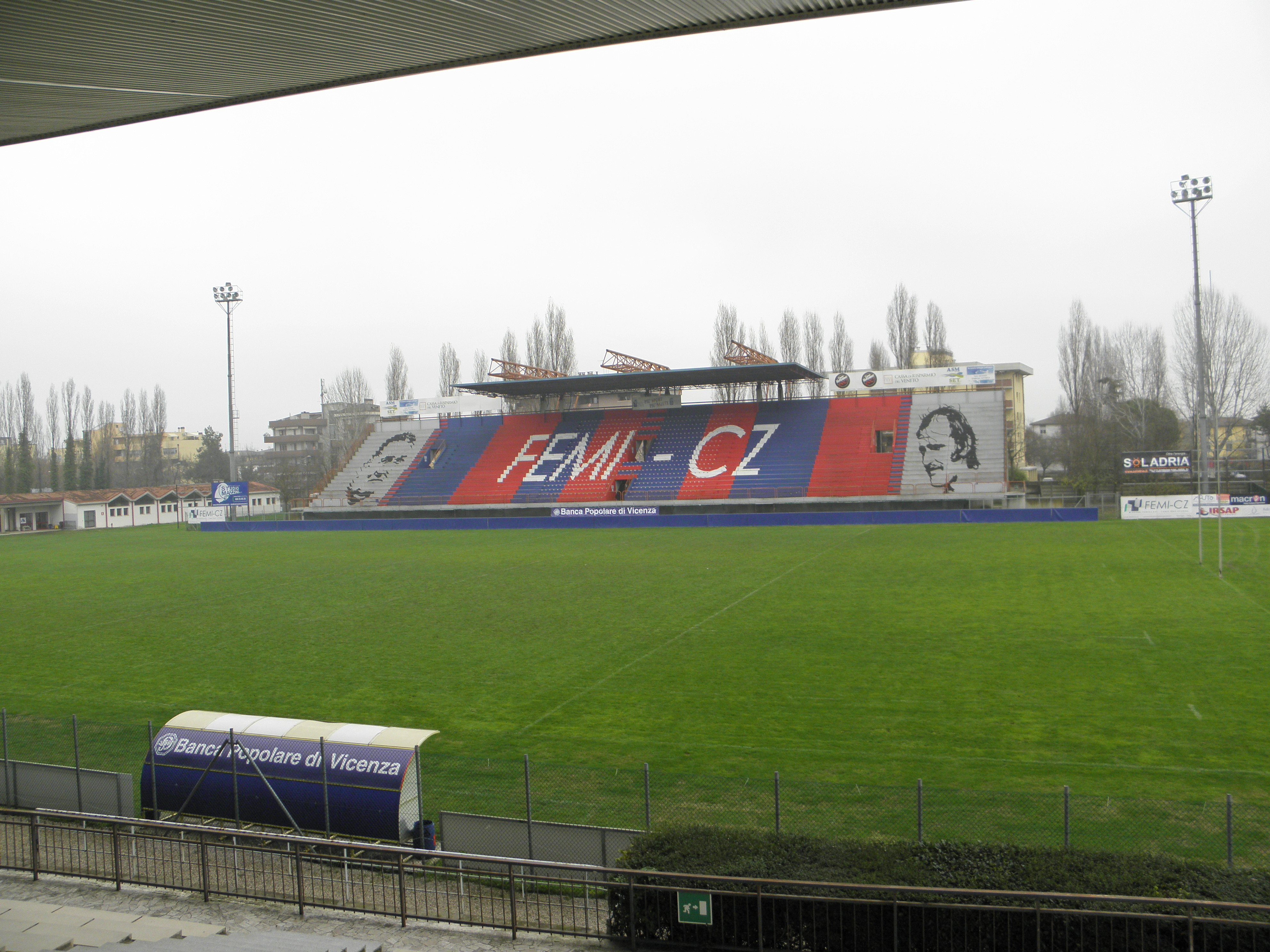 Mario Battaglini Stadium, internal: Quaglio stand. Rugby stadium in Rovigo, Italy.